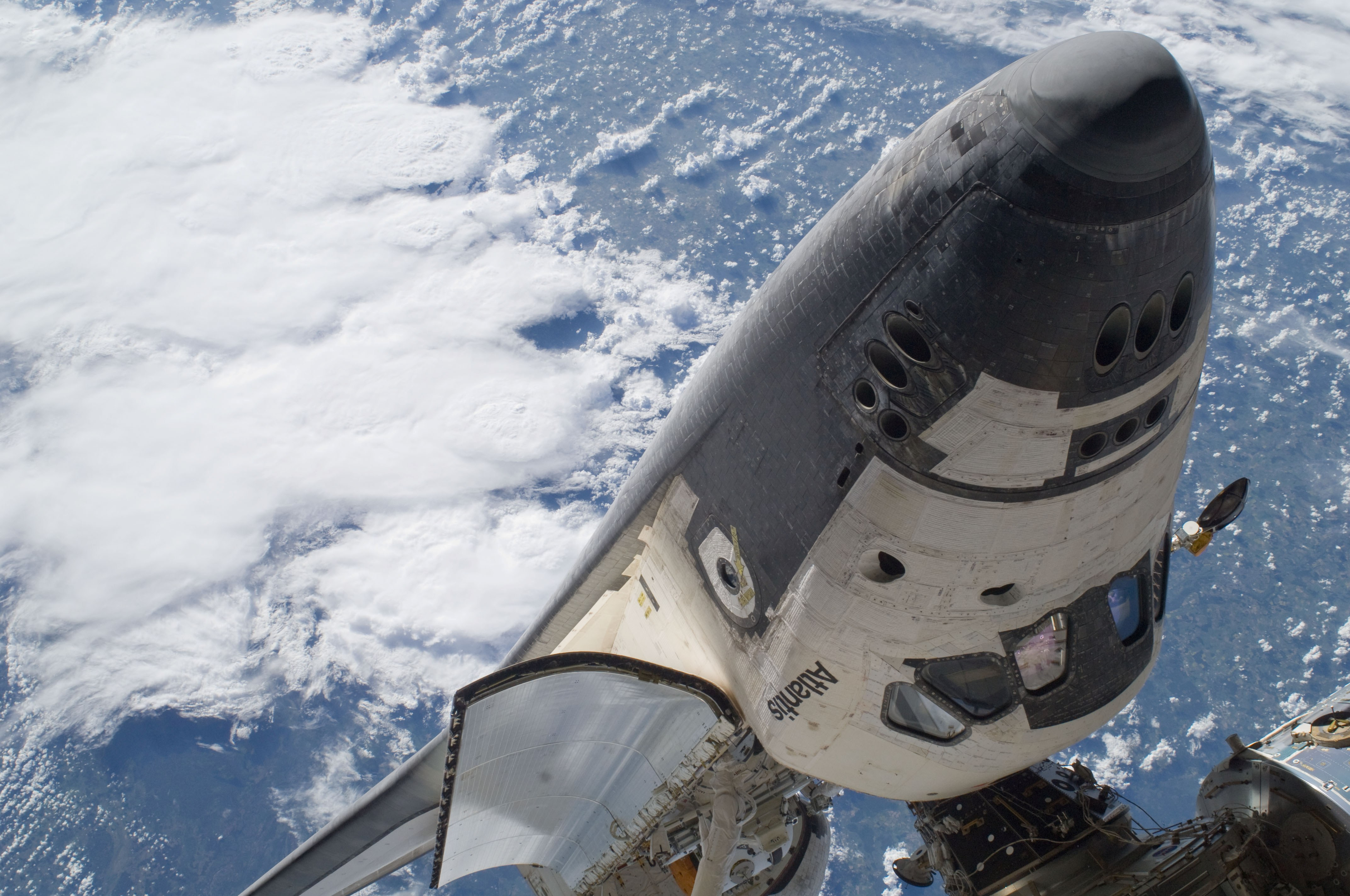 Space shuttle Atlantis, docked to the International Space Station, is featured in this image photographed by an STS-132 spacewalker during the mission's first session of extravehicular activity (EVA). A blue and white part of Earth provides the backdrop for the scene.